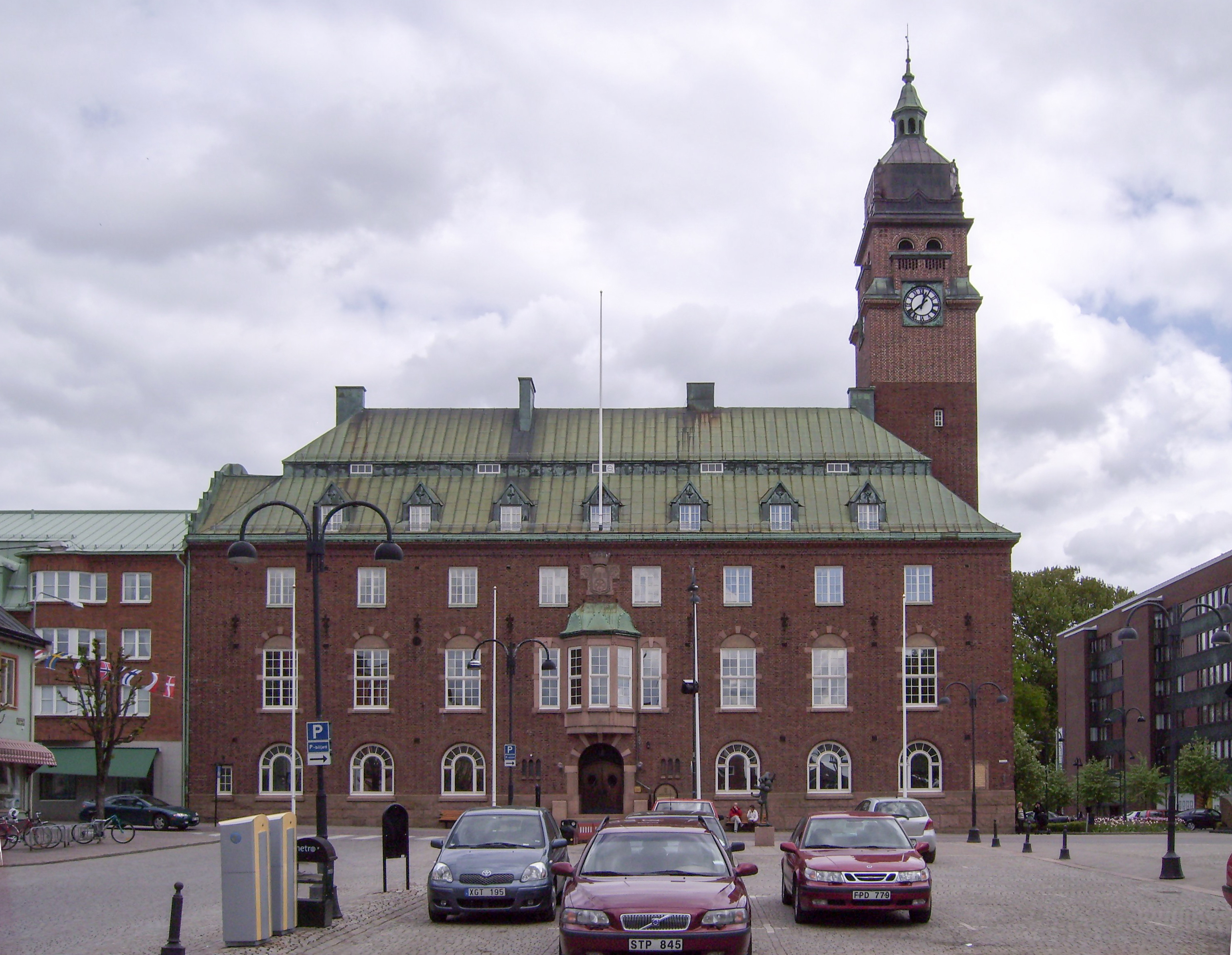 The town hall in the town Nässjö in Sweden.